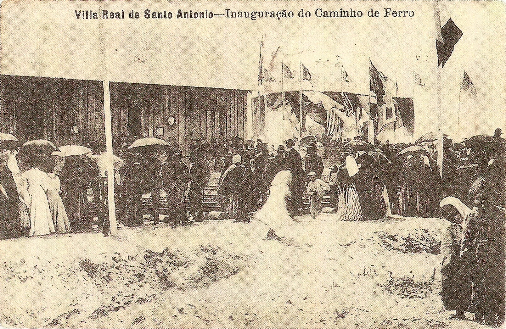 Postcard showing the inauguration of the first train station in Vila Real de Santo António, in Portugal, in the 14th of April 1906. This postcard was published by J. Vianna, in the Arsenal Street, in Lisbon.